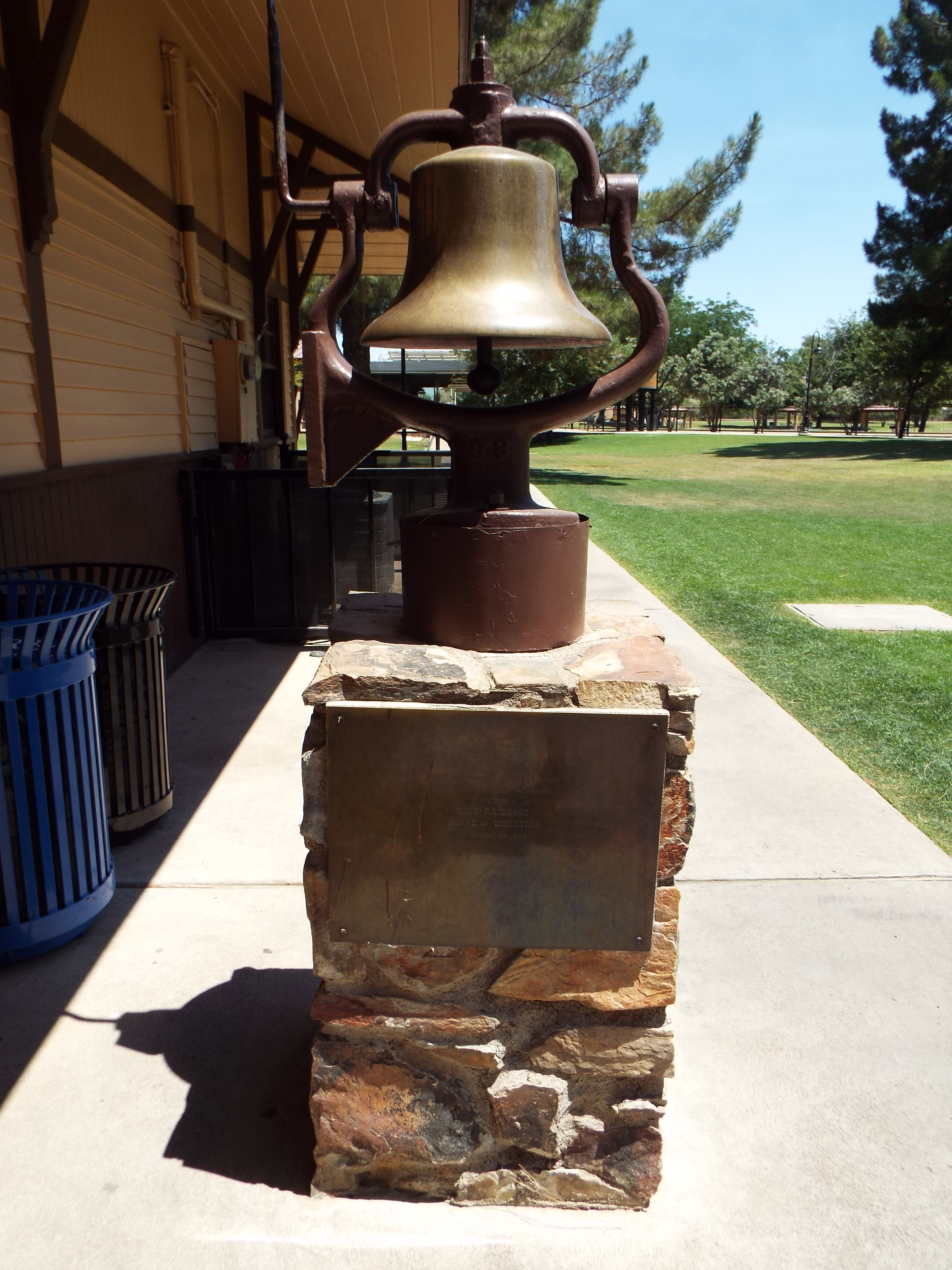 McCormick-Stillman Parkin Scottsdale, Az.-Antique Railroad Bell presented to Henry S Strugis in 1958